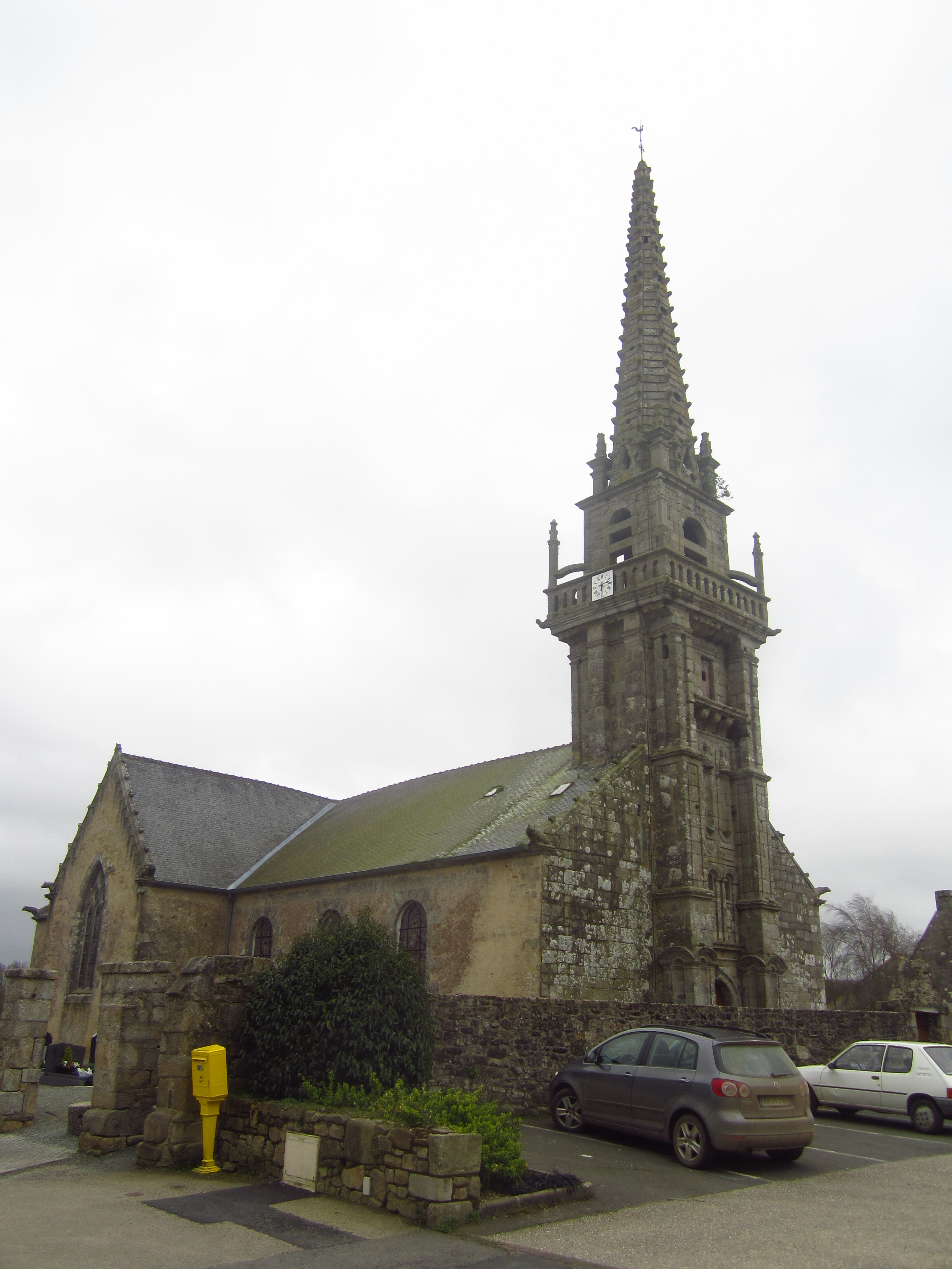 Church of Plougar, Finistère